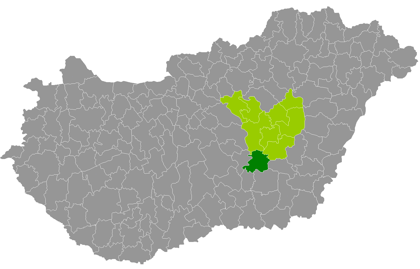 Location of Kunszentmárton District, Jász-Nagykun-Szolnok, Hungary